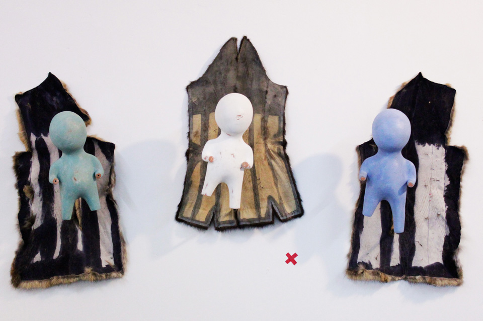 Nina Staehli Berlin, Luzern, Kansas City